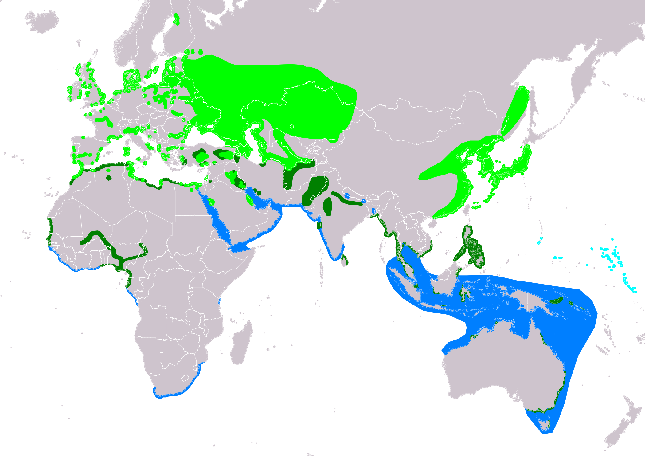 Distribution map of little tern (Sternula albifrons) according to IUCN version 2020.1 (compiled by: BirdLife International and Handbook of the Birds of the World (2019) 2019); key: Legend: Extant, breeding (#00FF00), Extant, resident (#008000), Extant, passage (#00FFFF), Extant, non-breeding (#007FFF)